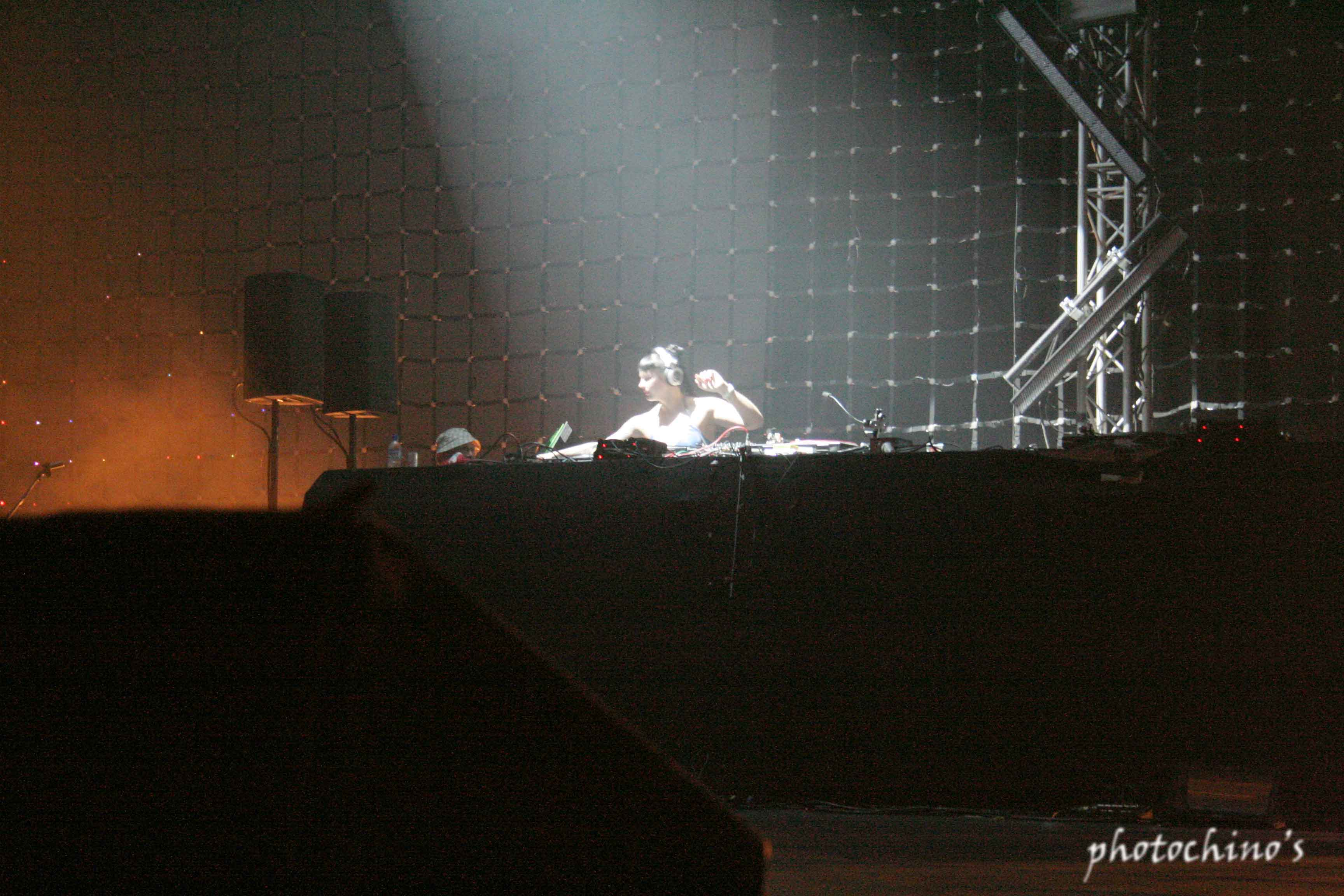 Miss Kittin actuant al Sonar 2006